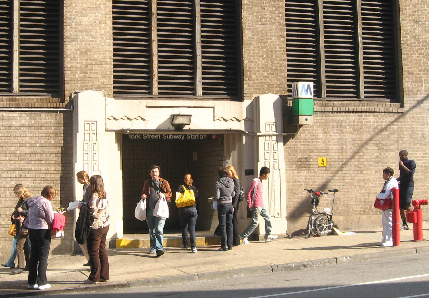 Looking southeast across Jay Street at York Street (IND Sixth Avenue Line) on a mostly sunny midday for WTM See also File:York tower Rutgers tunnel jeh.JPG.